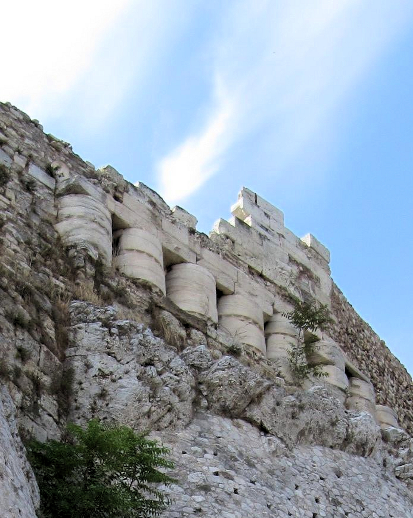 Acropolis North wall Older Partenon columns